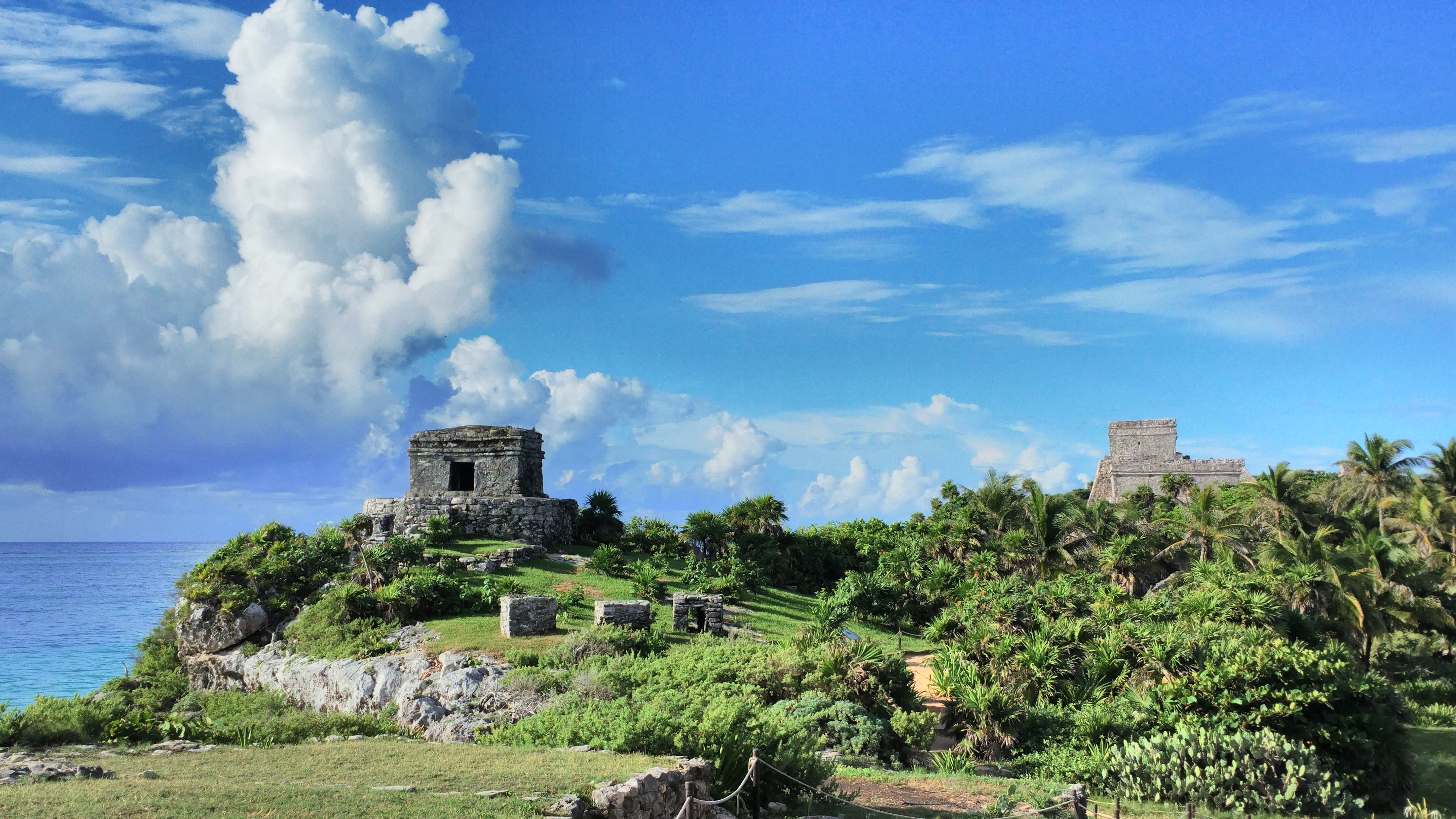 Tulum's Templo del Dios Viento (Temple of Wind God, left) and Castillo (castle, right)